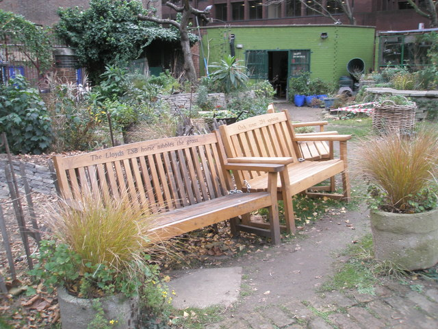 Oblique inscription within The Phoenix Garden, Stacey Street